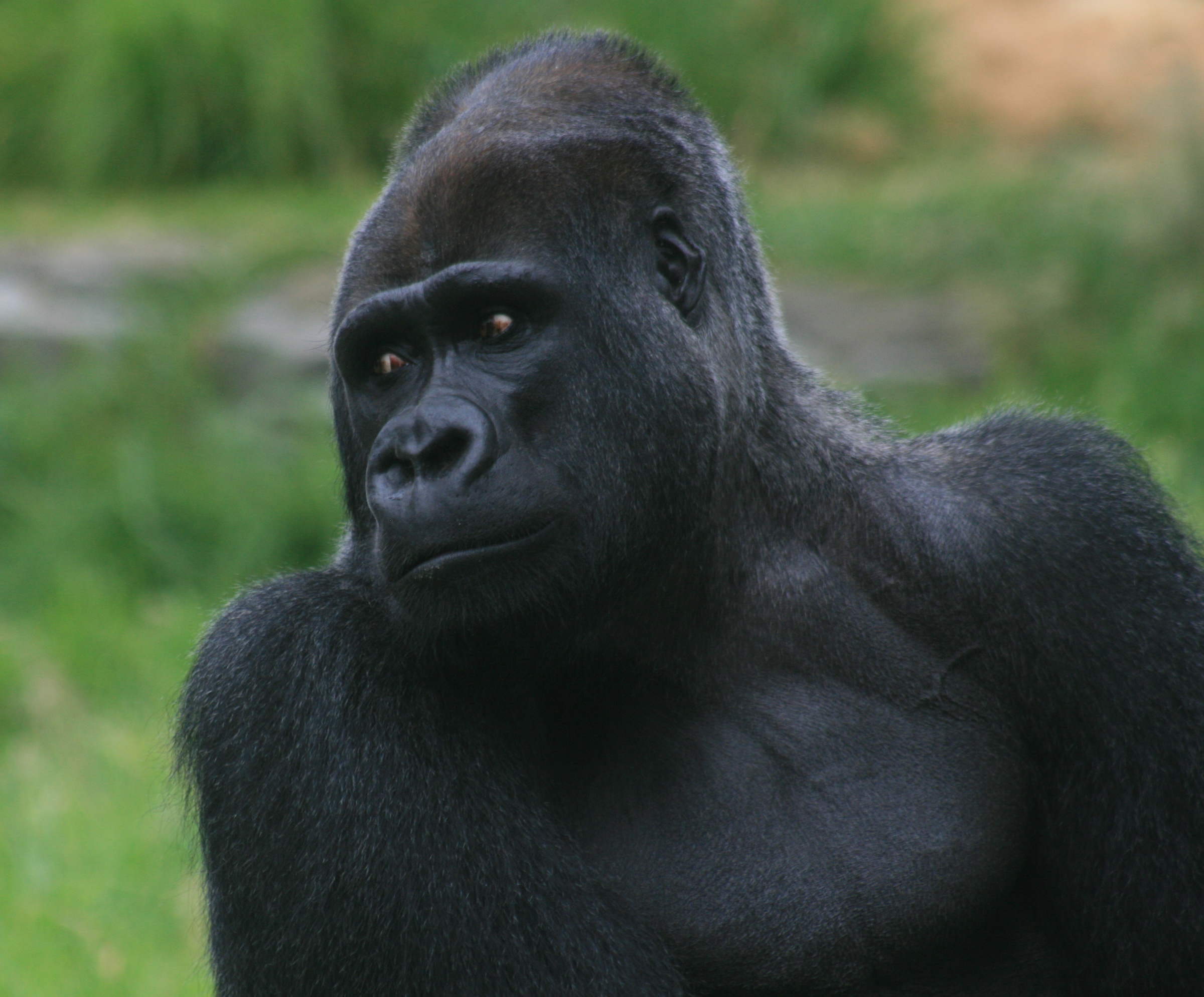 MaleGorilla in SF ZOO